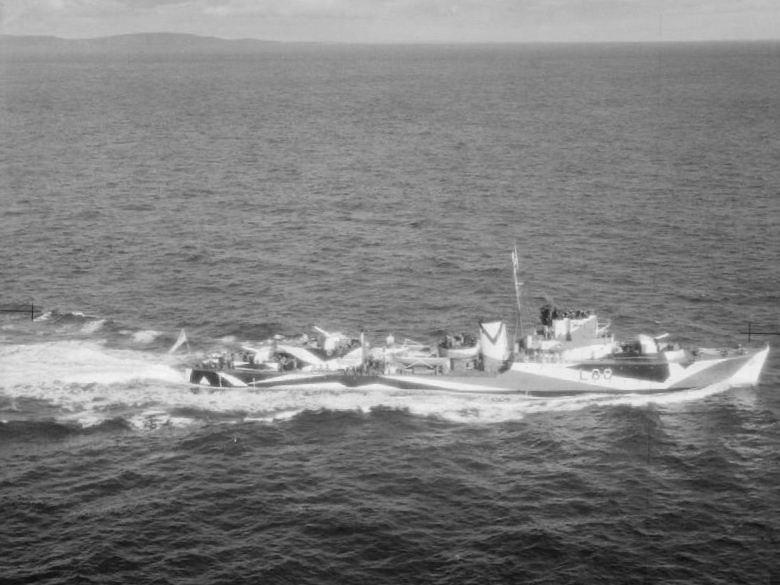 Aerial photograph of British Hunt class destroyer HMS Lamerton.